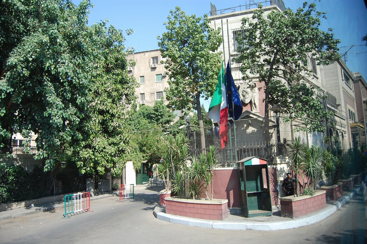 Egypt, Cairo, Italy ambassy